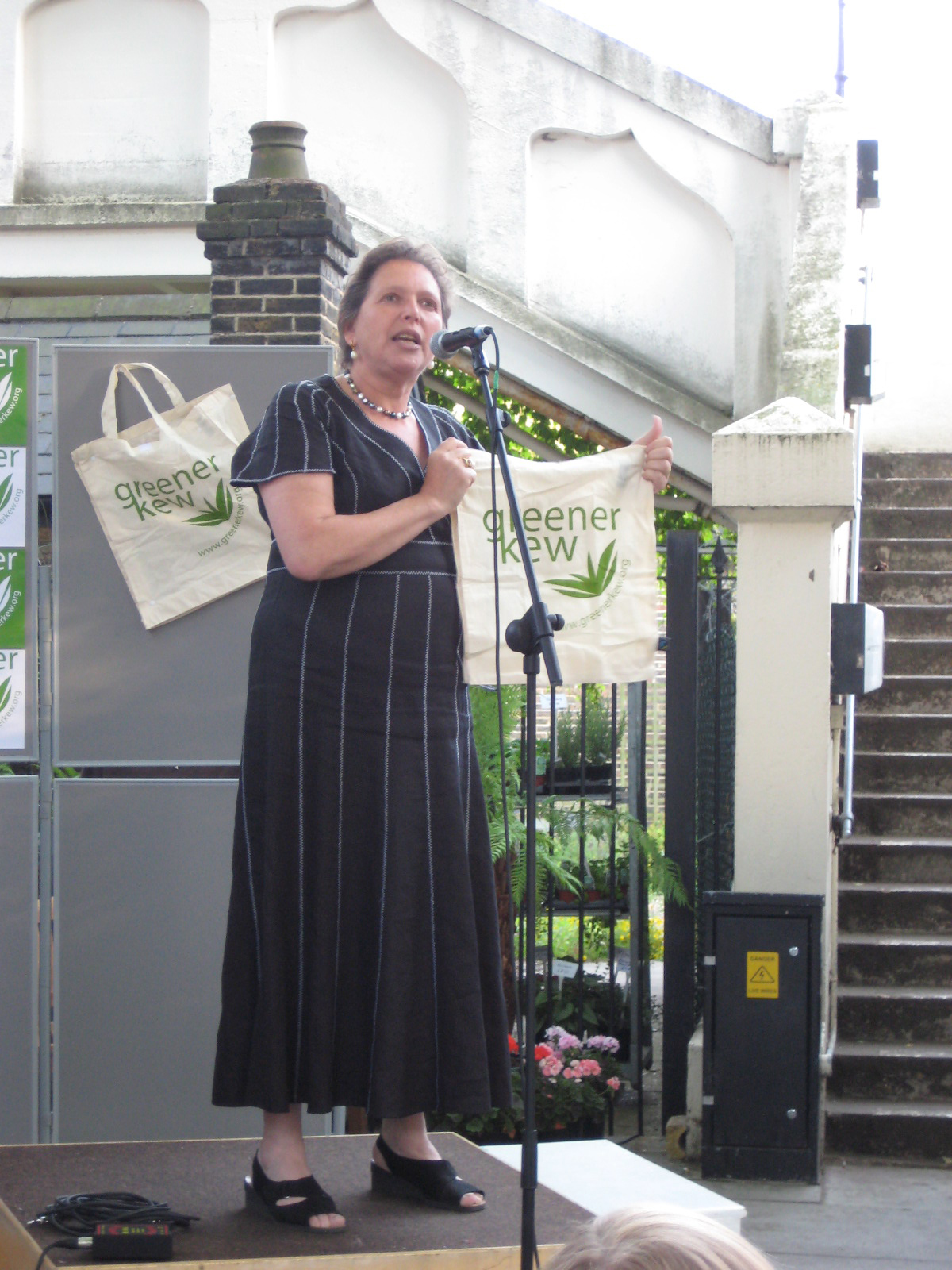 From my London Underground Tube Diary Kew Gardens plastic bag free launch